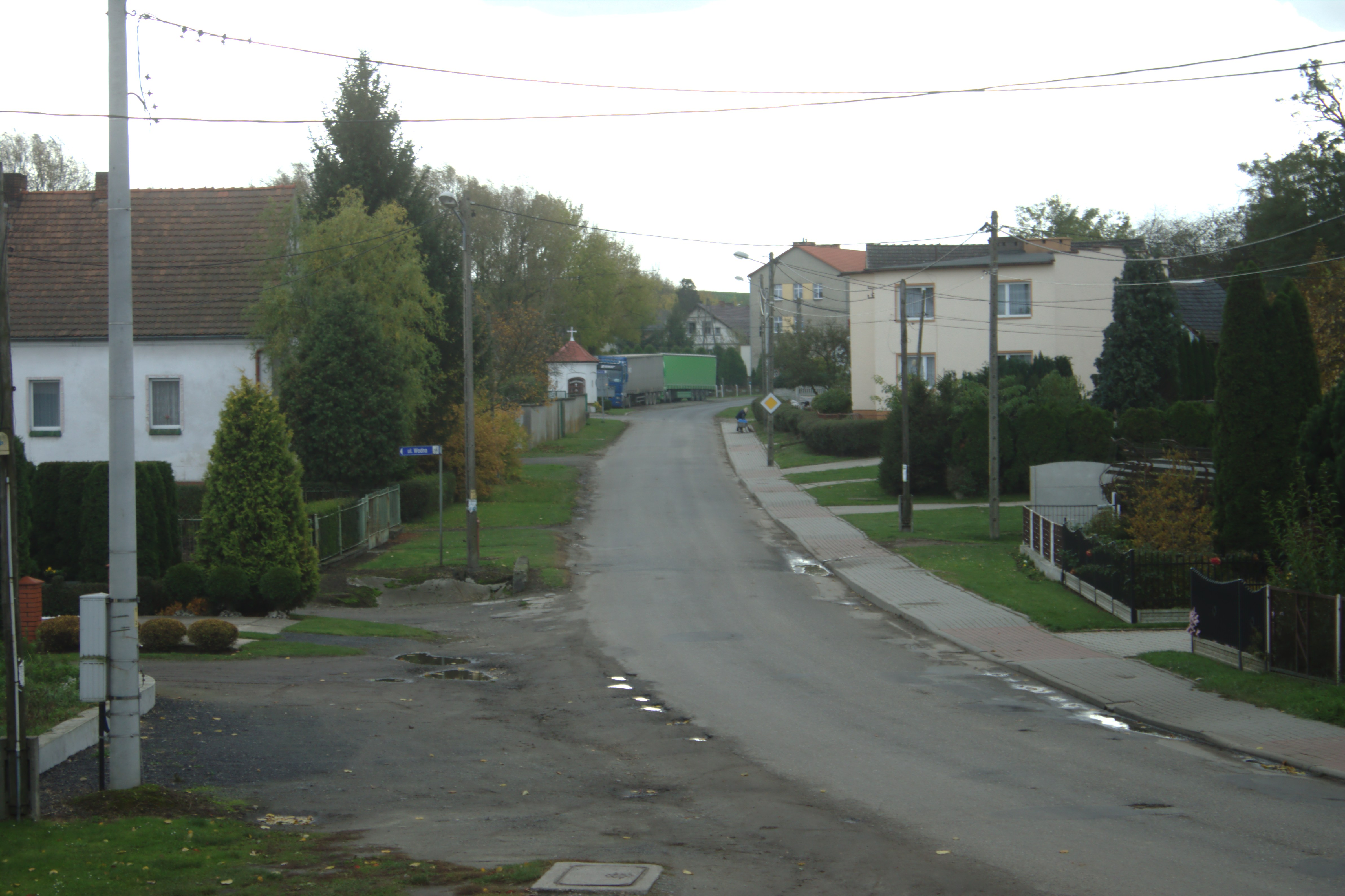 A view from the church to the village of Zakrzów, Poland